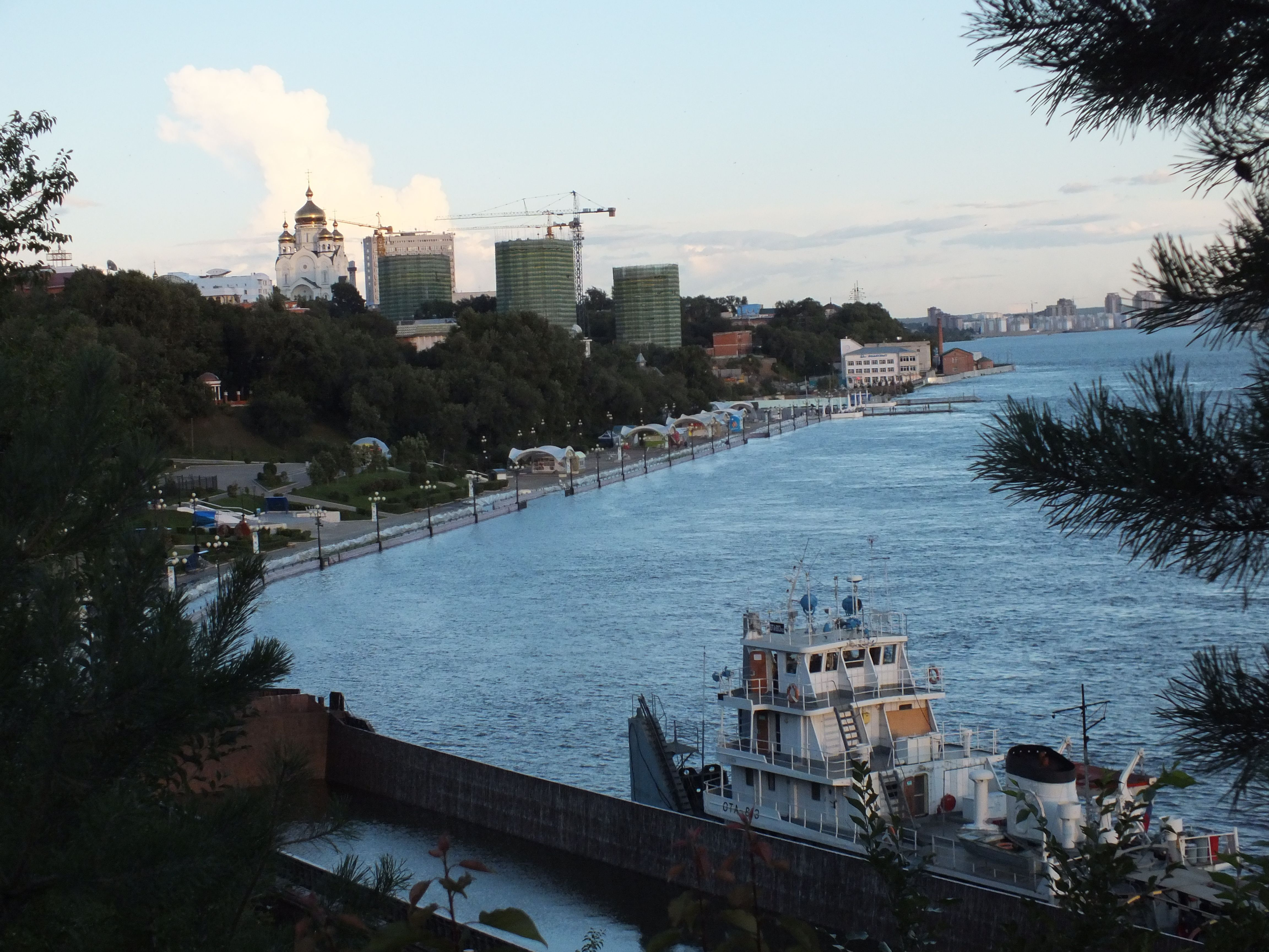 Amur River (Towboat / tugboat OTA-813 on the Amur River at Khabarovsk during the flood 27 August 2013)